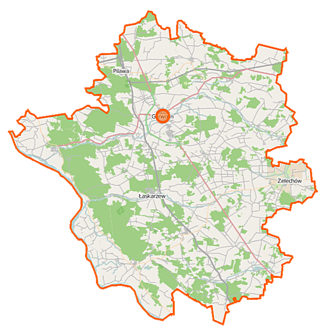 Map of Powiat garwoliński, Poland This map of Powiat garwoliński was created from OpenStreetMap project data, collected by the community. This map may be incomplete, and may contain errors. Don't rely solely on it for navigation. Border coordinates52.055921.2558←↕→21.982351.5967